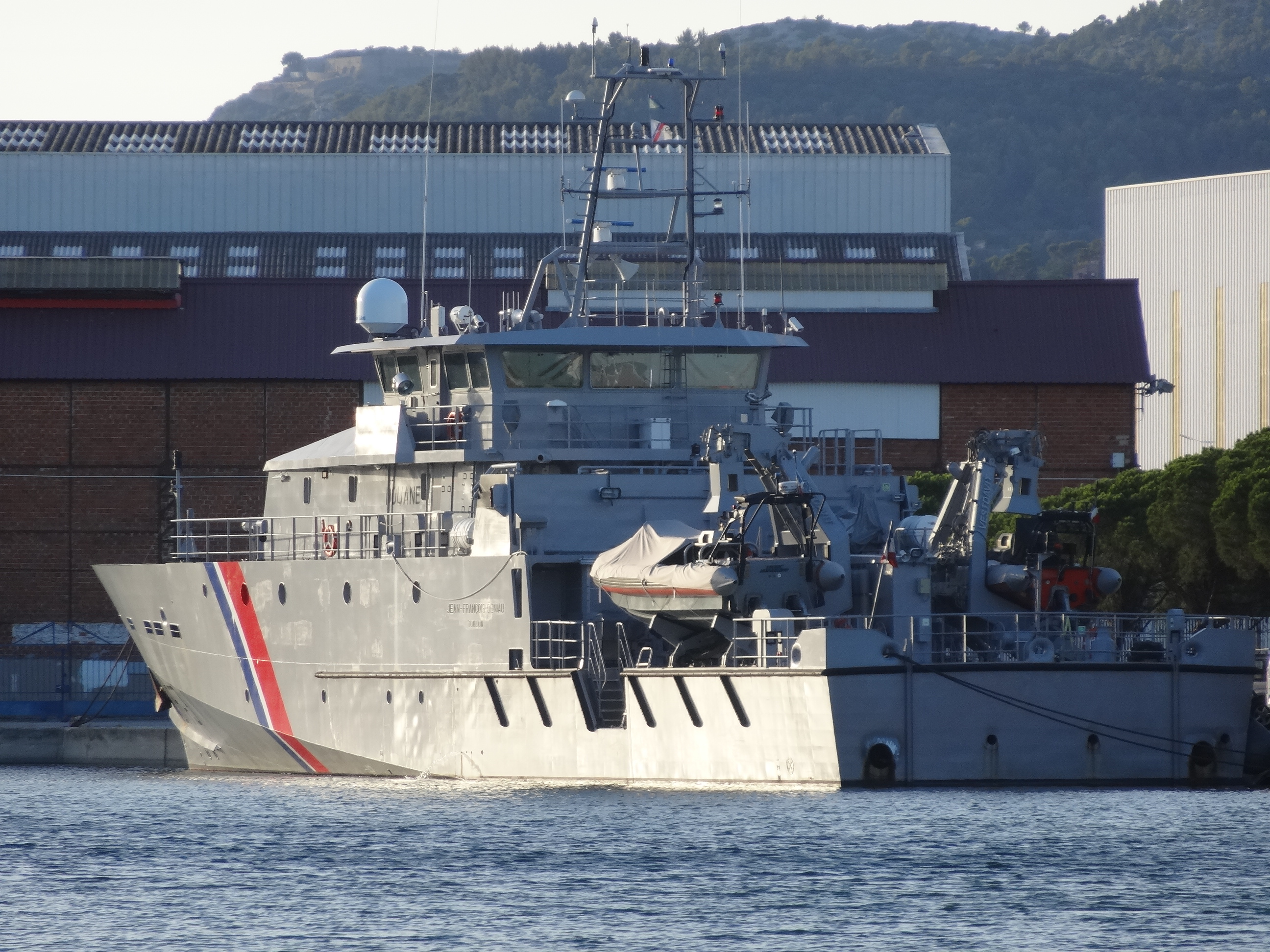 Jean François Deniau IMO 9760691, seen from La Seyne sur Mer